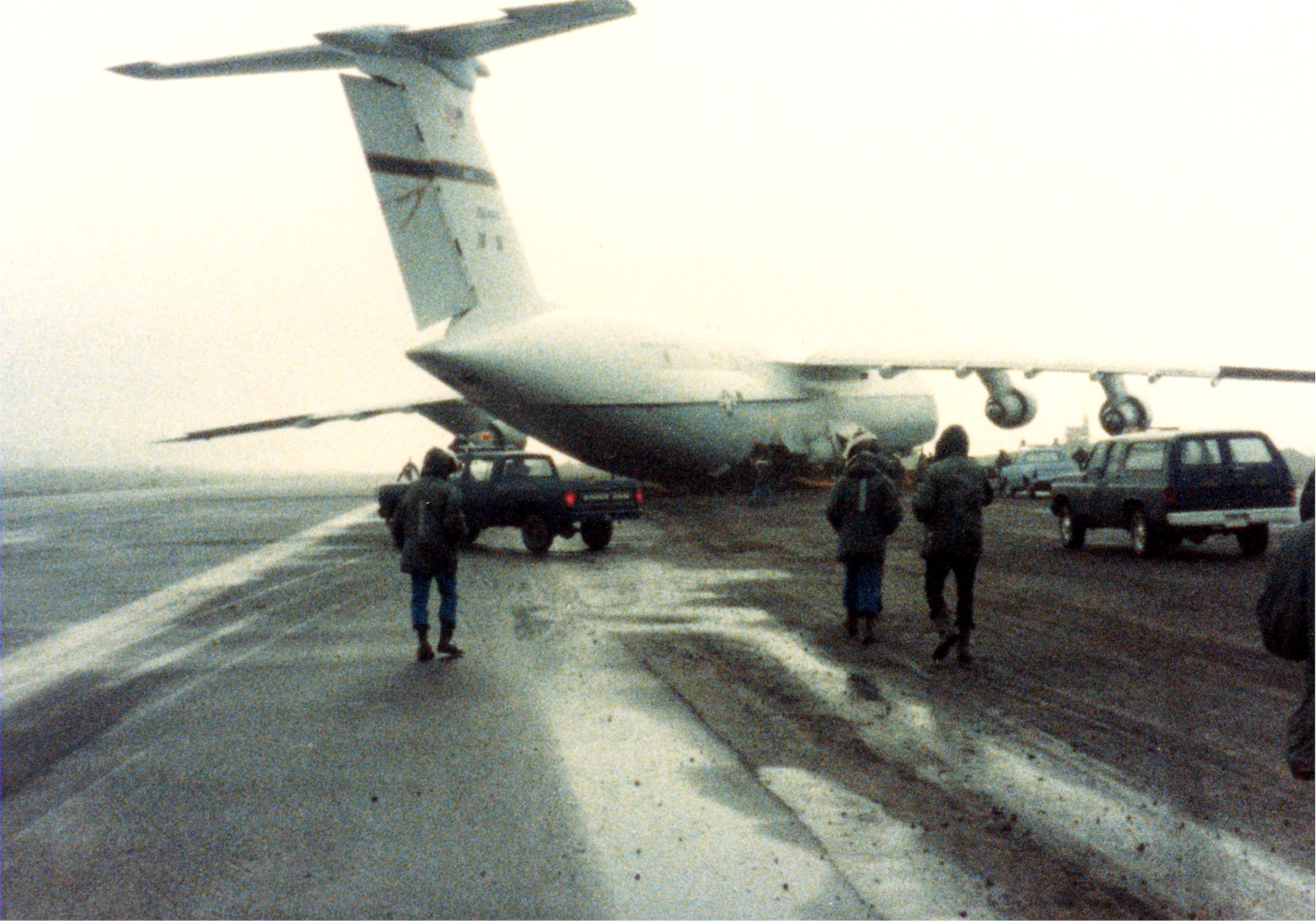 Author: Keith Boughner This picture was taken after crash recovery of C-5 Galaxy 70-0446 had begun. Shemya, Alaska Aug 1983.